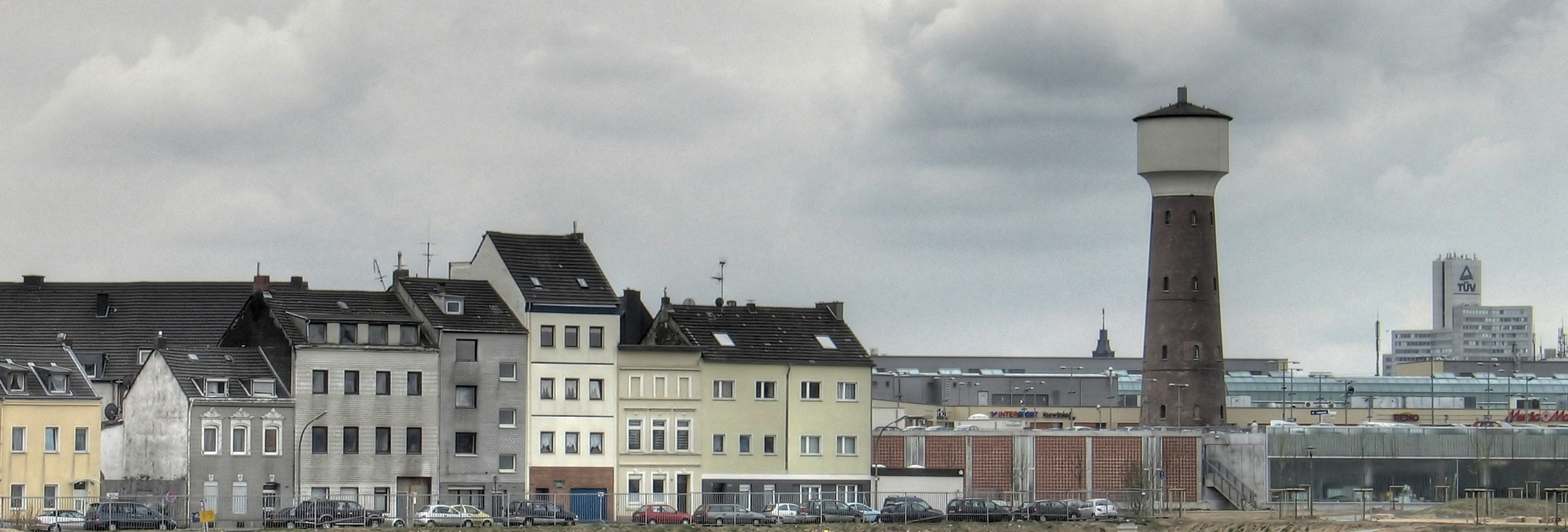 Cologne-Kalk CFK Watertower Description in